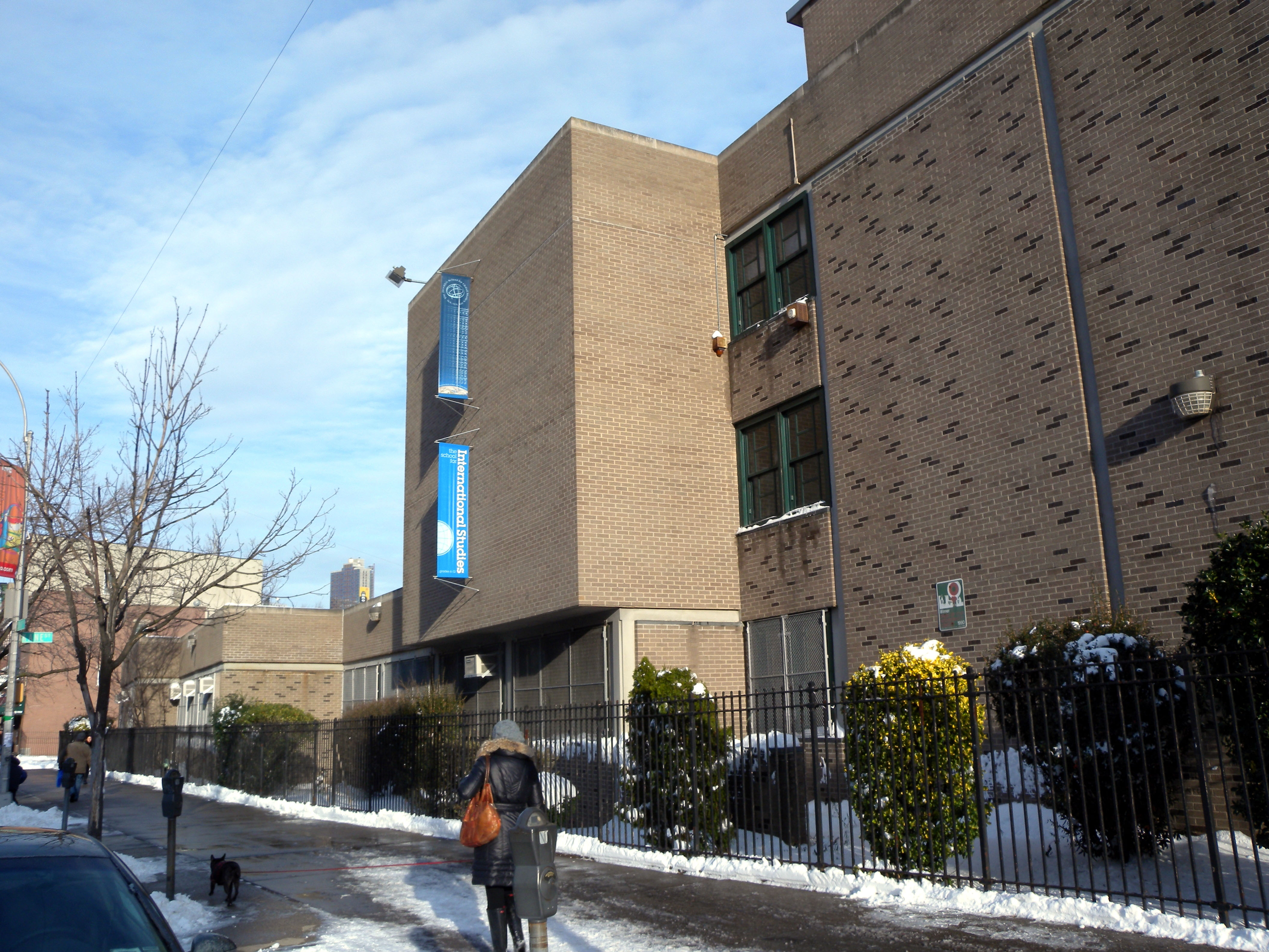 Looking northeast along Court Street from Butler Street at School for International Studies on a sunny afternoon after snow.